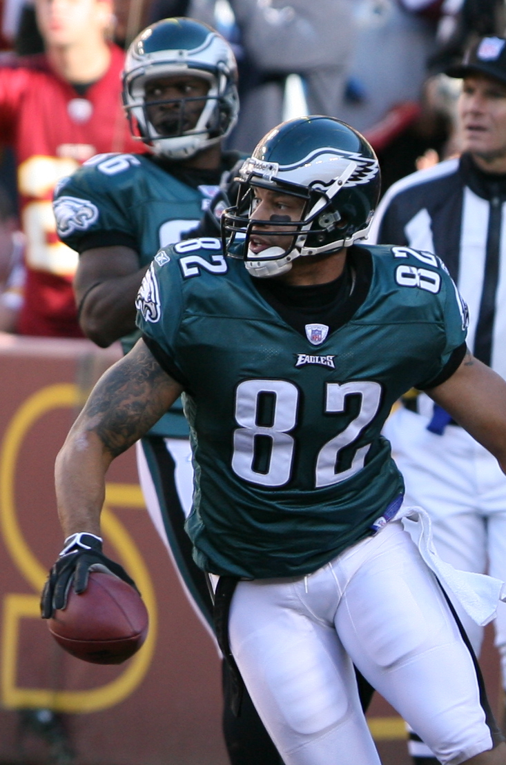 Eagles TE LJ Smith runs with the football against the Redskins